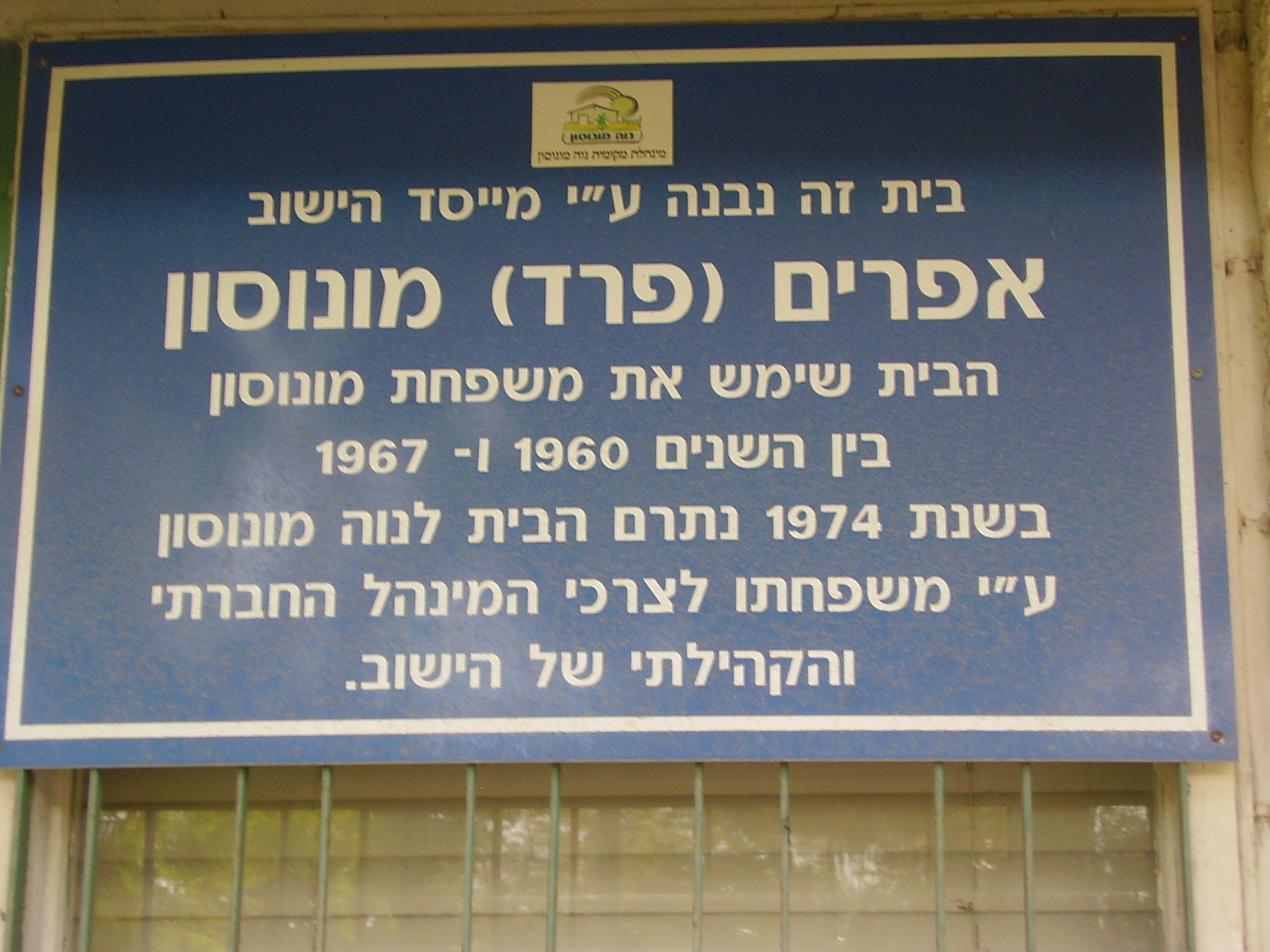 ephraim (fred) monosson house in neve monosson